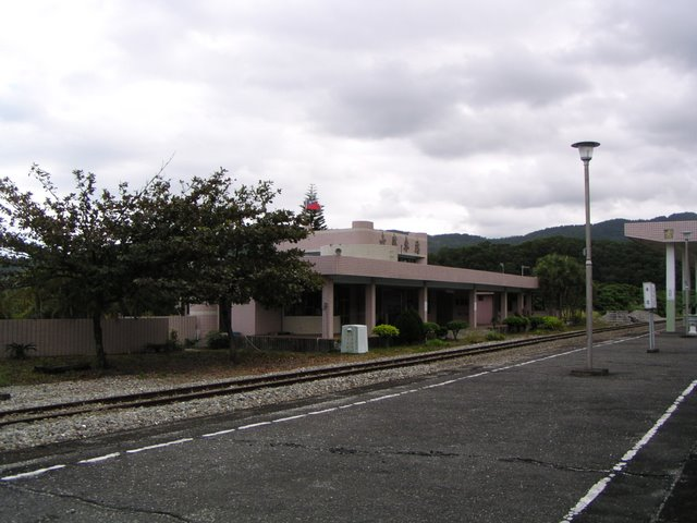 Taiwan Railway Administration Gujhuang Station